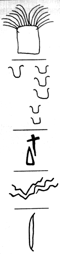 source German wiki there Bild:Barnerez symbols.png seen as fair use as images ar by artists who died more than 5,000 years ago